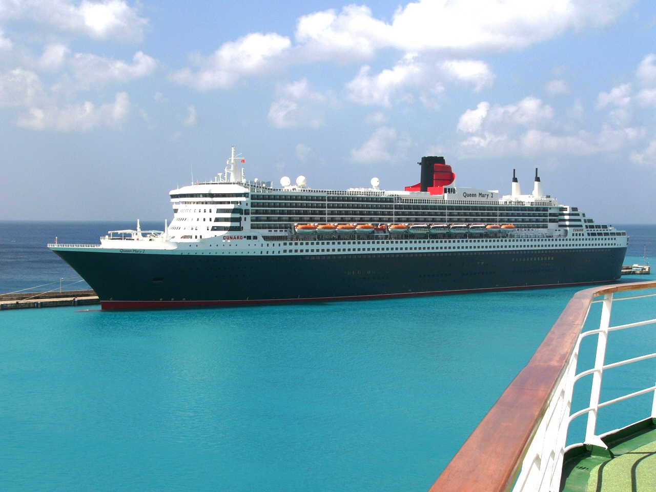 Queen Mary 2, Barbados